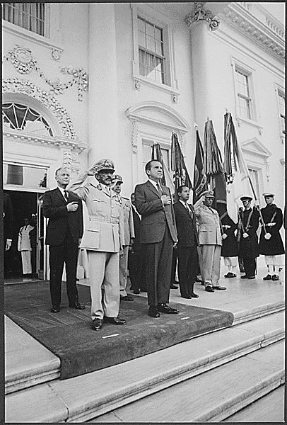 Arrival ceremony for Emporer Haille Sellasse [sic]